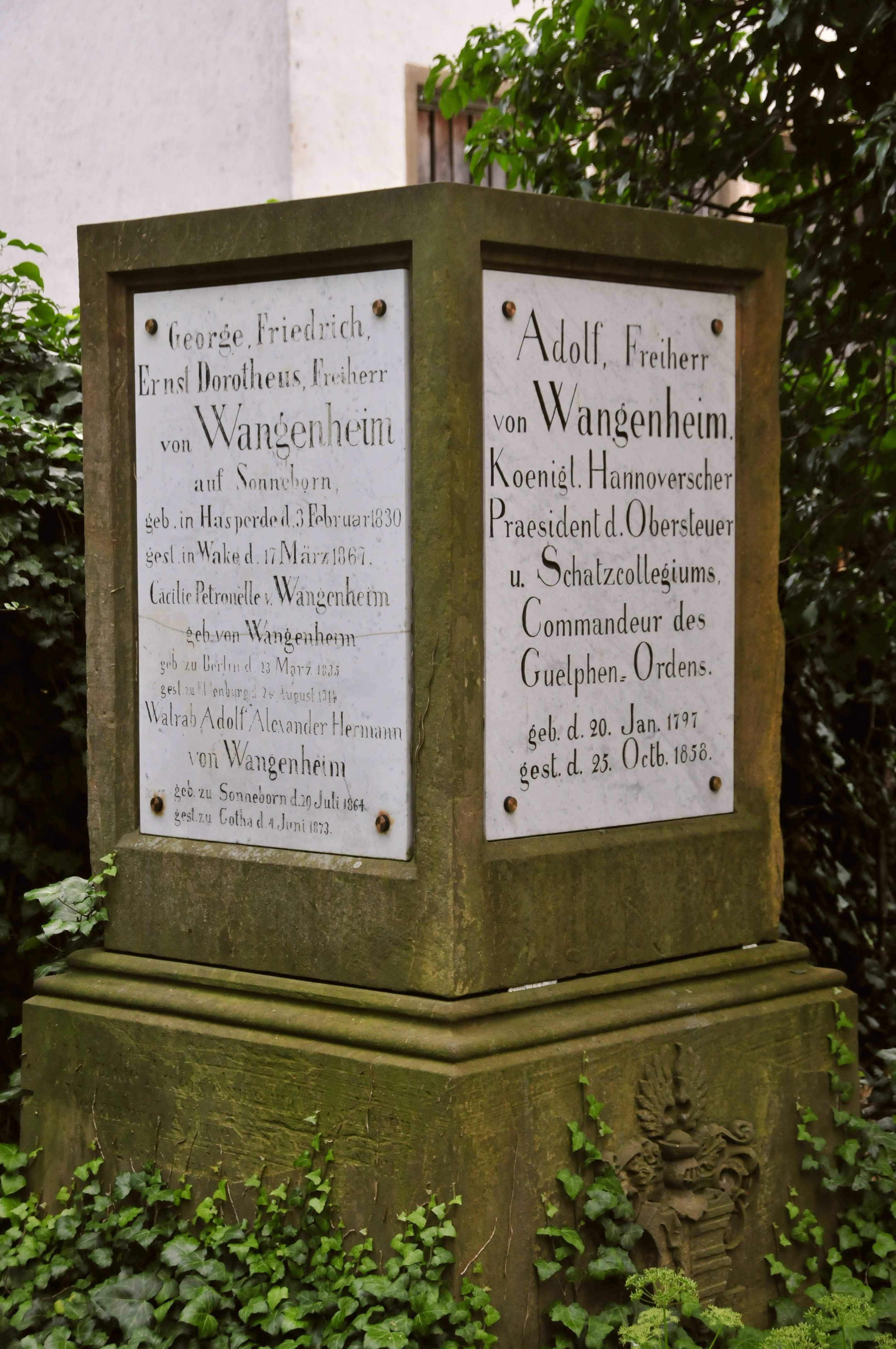 Gravestone of Adolf von Sonneborn and other members of family in Sonneborn